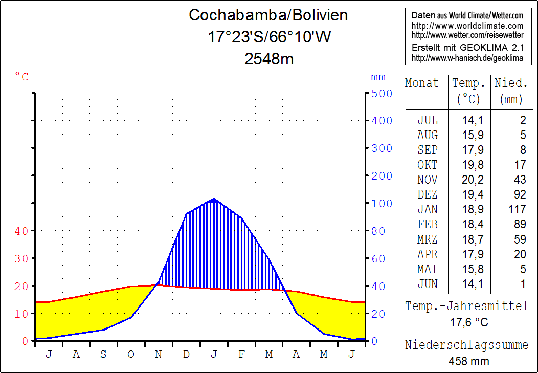 Climate chart in the Walter and Lieth format, metric, °Celsius und millimeters, made with Geoklima 2.1